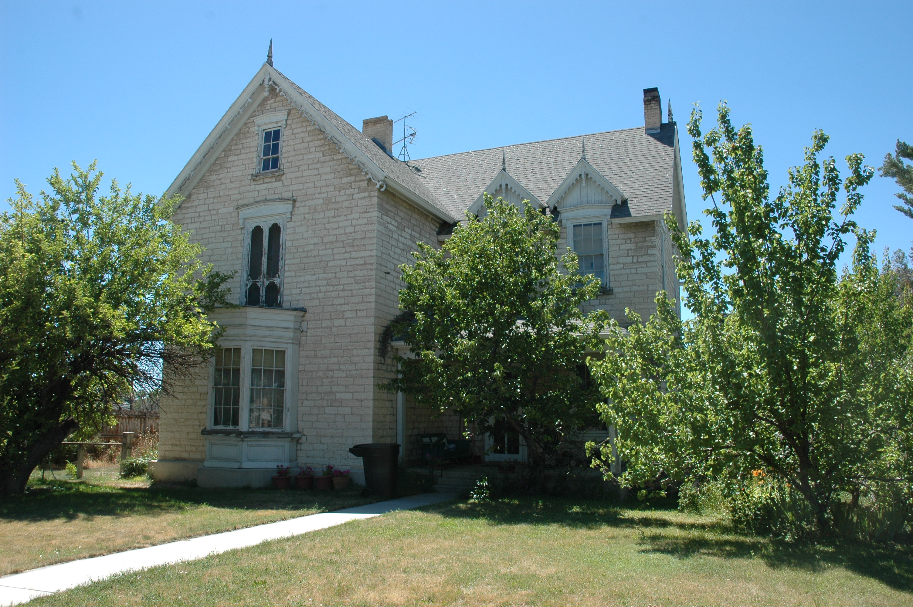 The Greaves-Deakin House, a historic home in Ephraim, Utah, United States.